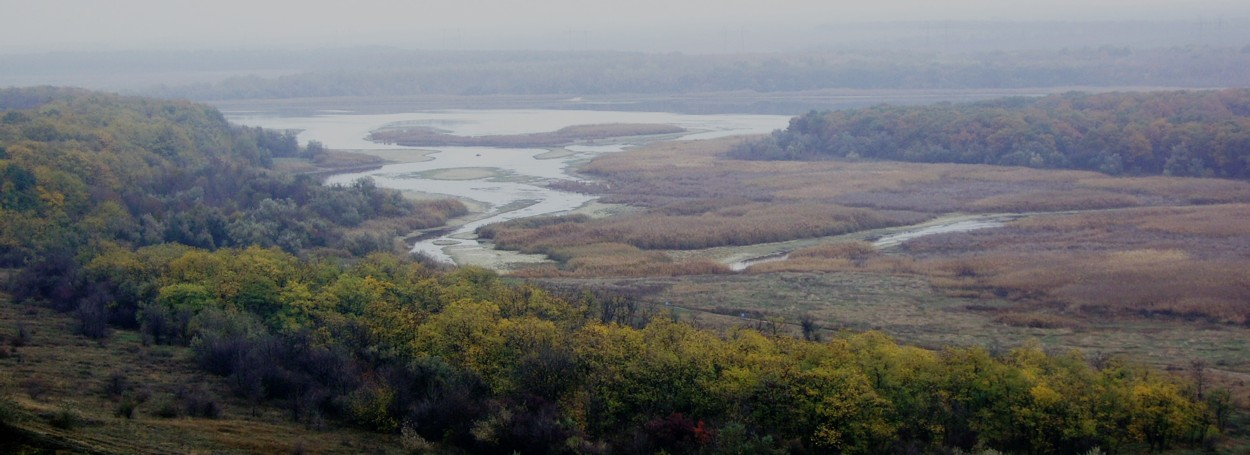 Вид на Клебан быкское водохранилище с национальной автомобильной дороги Template:Табличка-ru